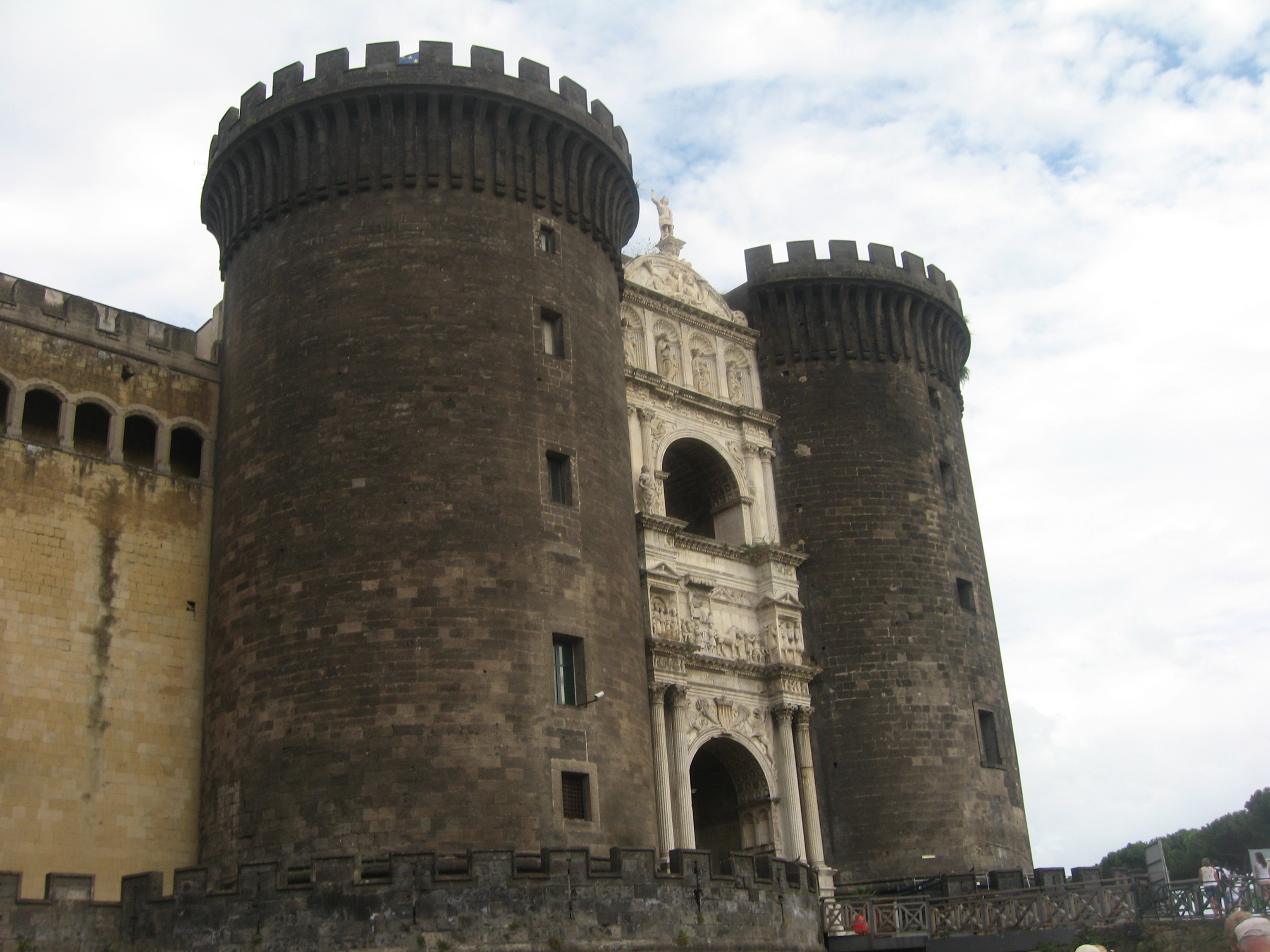 Castel Nuovo (Naples)